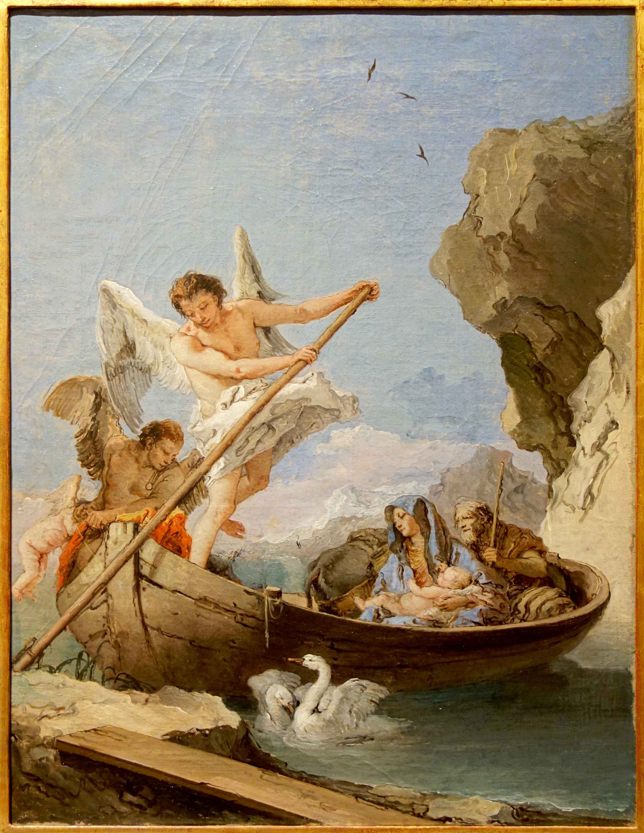 Flight into Egypt by Giambattista Tiepolo, 1764 - 1770. The painting is located at the Museu Nacional de Arte Antiga, Lisbon, Portugal.